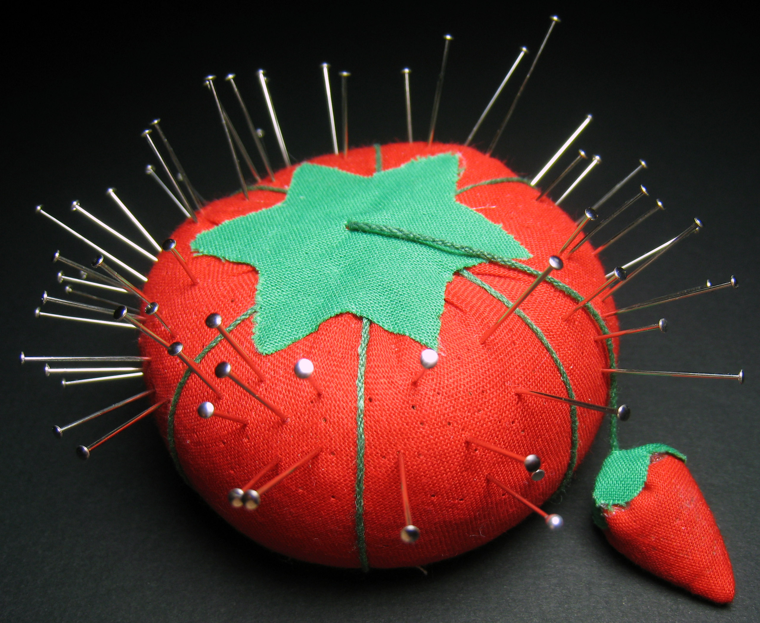 A pincushion (sewing), with pins. The small "strawberry" is filled with emery powder to remove burrs from pins.